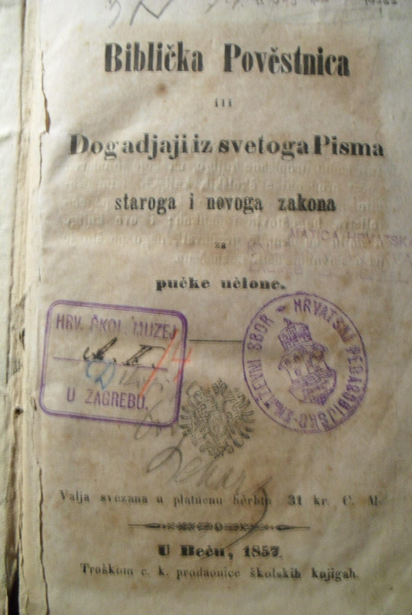 Biblička pověstnica (Bible history) in Croatian language (1857)